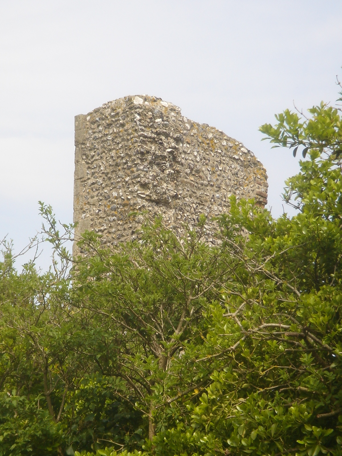 Remains of Manor House West of St Mary's Convent, off High Street, Portslade, City of Brighton and Hove, England. The ancient manor house of Portslade was built in the 12th century, next to the contemporary Church of St Nicolas. Listed at Grade II* by English Heritage (IoE Code 365592)